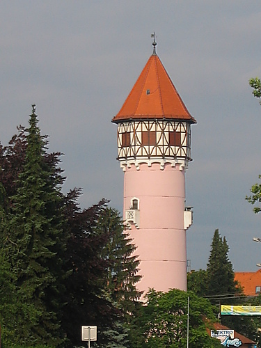 Water Tower in Brežice